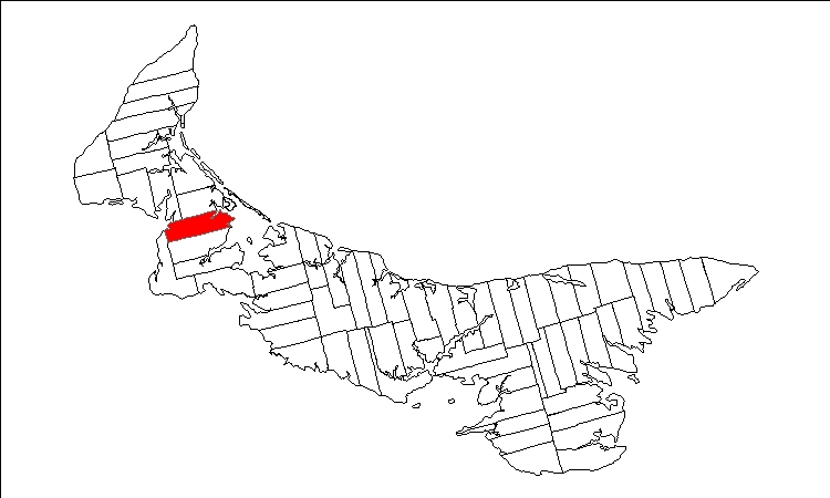 Public domain map of Prince Edward Island created by User:Plasma east with data courtesy of Geogratis, modified to show townships. Released under GFDL (self).